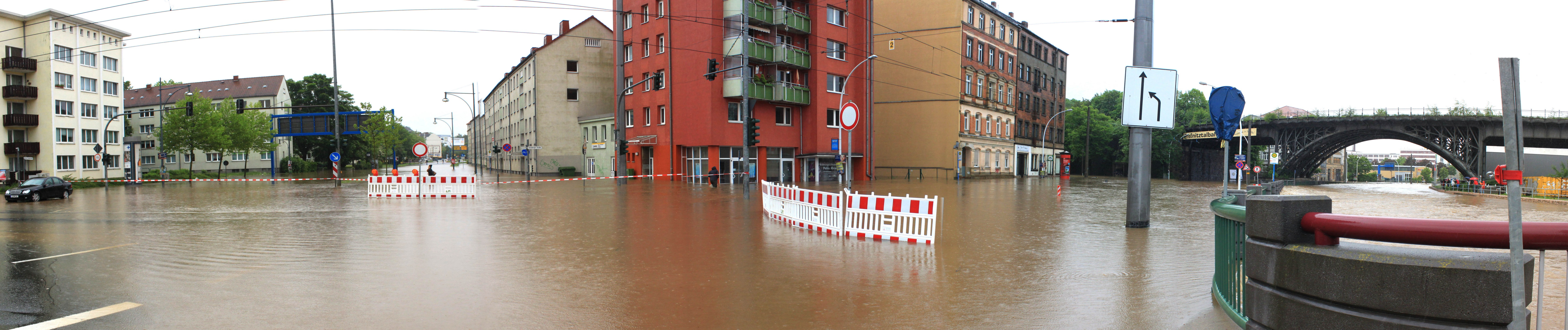 Flood in June 2013 in Chemnitz